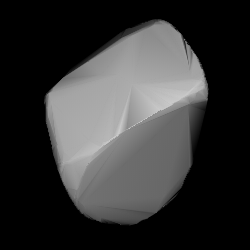 3D convex shape model of 1665 Gaby, computed using light curve inversion techniques. J. Hanuš, J. Ďurech, M. Brož, B. D. Warner (June 2011). "A study of asteroid pole-latitude distribution based on an extended set of shape models derived by the lightcurve inversion method". Astronomy and Astrophysics 530: A134. ISSN 0004-6361. arXiv